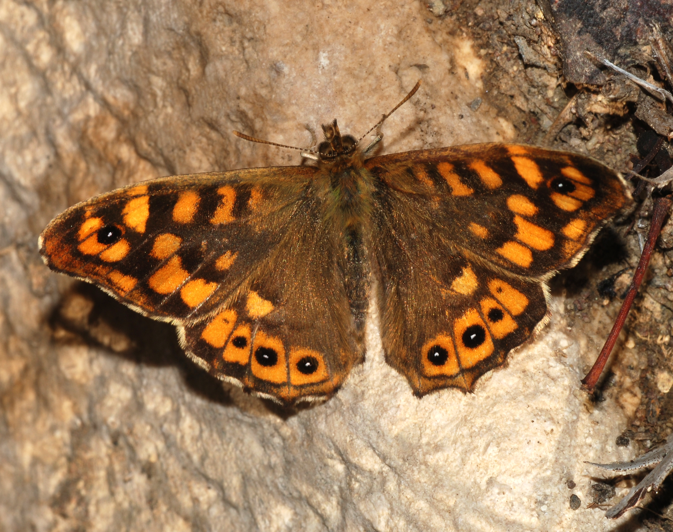 A Splecked Wood butterfly (Pararge aegeria)